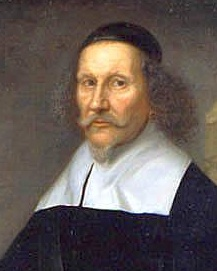 A portrait of Georg Stiernhielm made in 1663 by David Klöcker Ehrenstrahl.